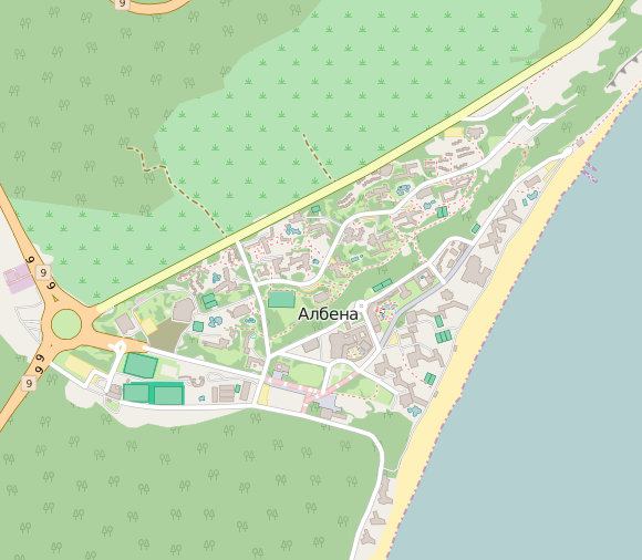 OpenStreetMap - Map of Albena